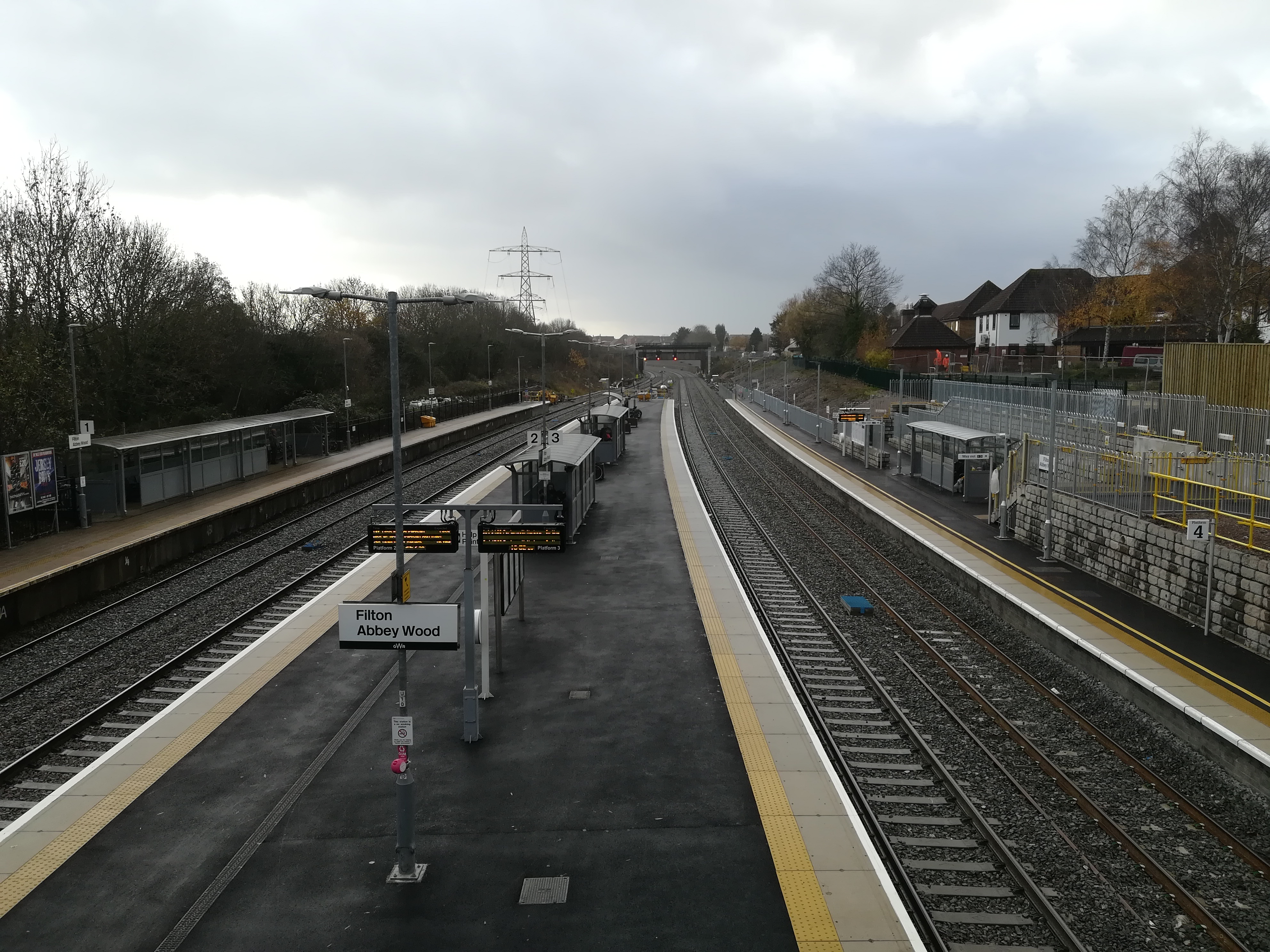 A view across Filton's 4 platforms from the footbridge.